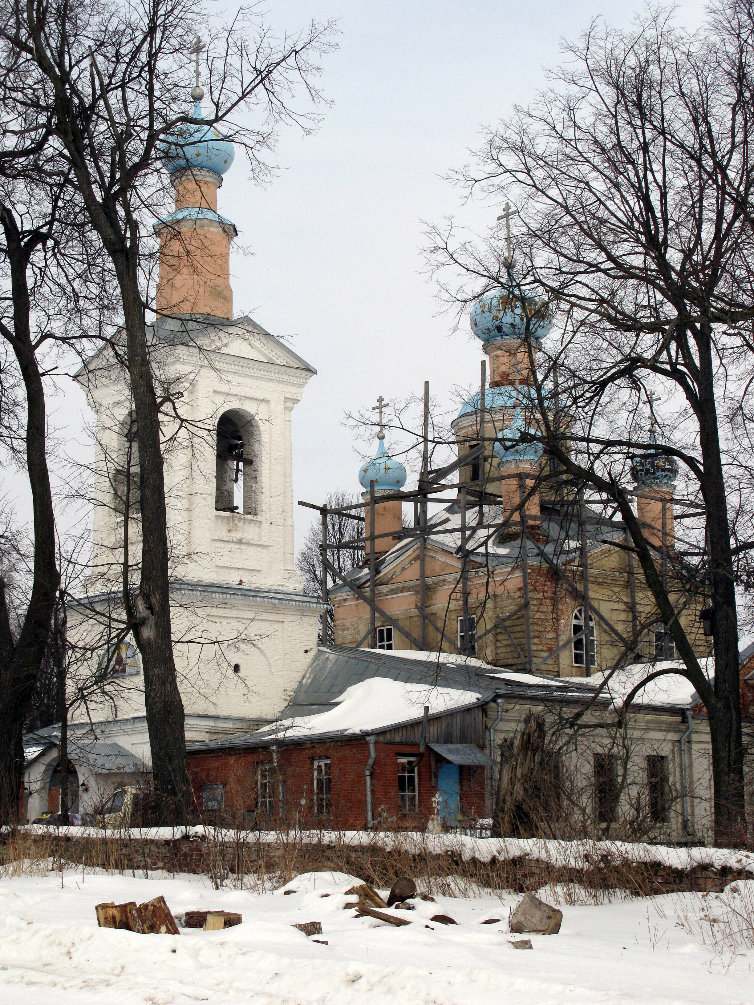 Church of the Protection of the Theotokos (Pokrovskoe)